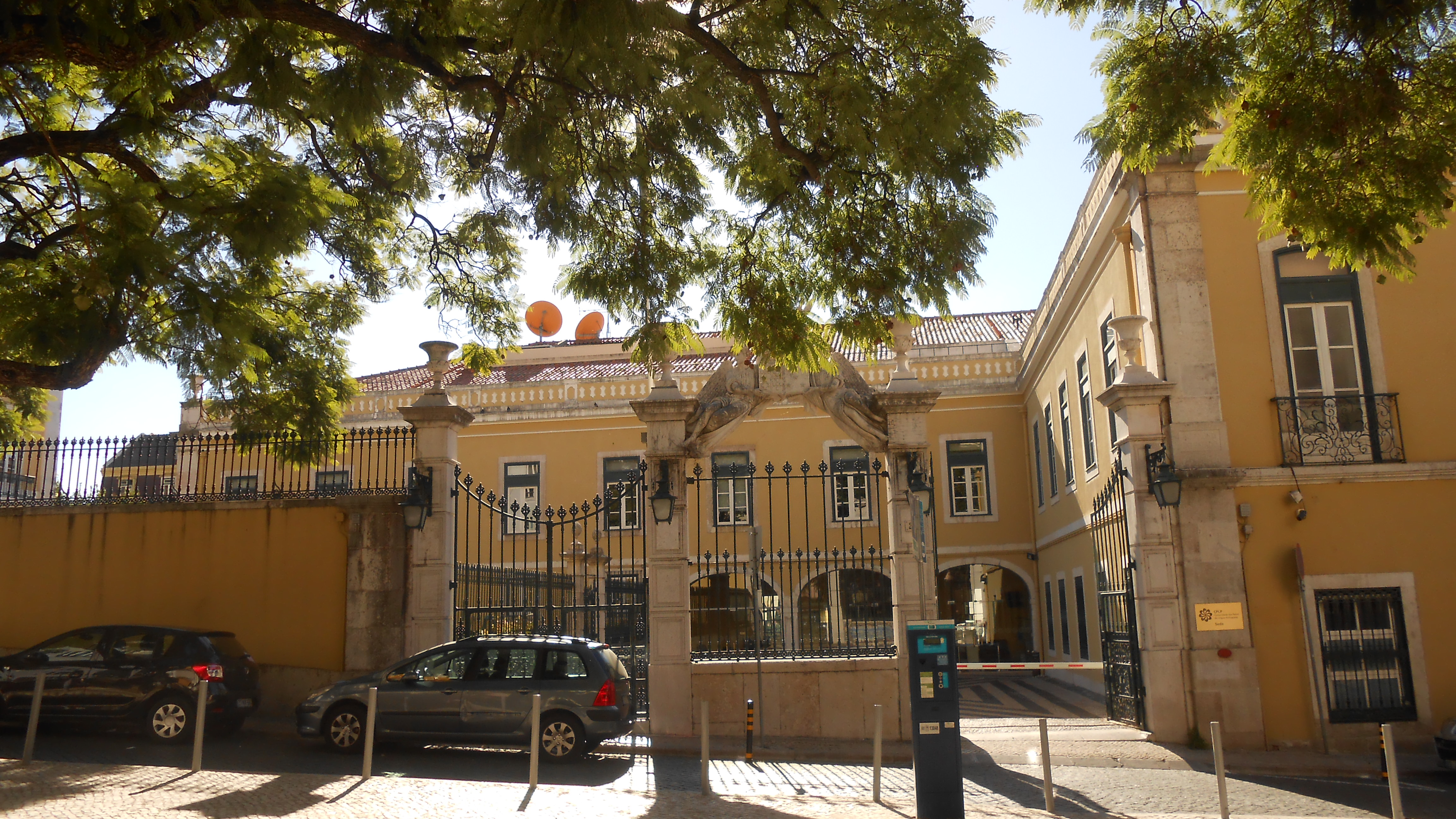 The Palácio Conde Penafiel in Lisbon, built in the early 17th century, became the headquarter of the Community of Portuguese Language Countries (Comunidade dos Países de Língua Portuguesa, CPLP) in 2011.